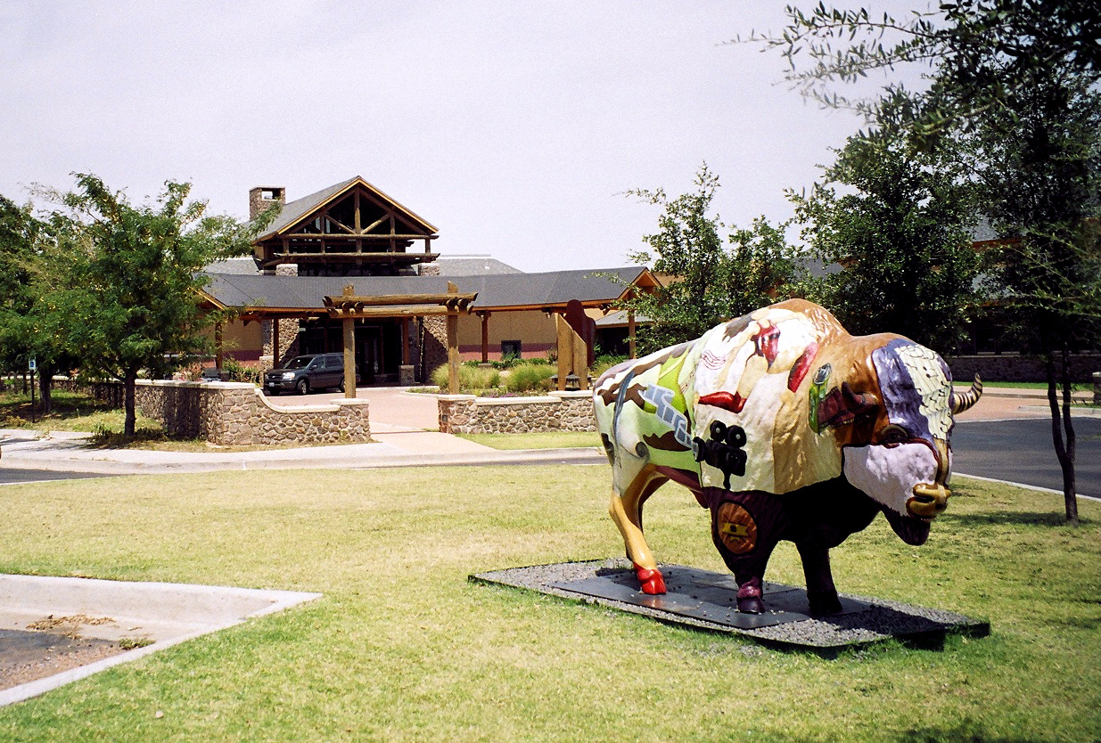 The Entrance to the main building at the Quartz Mountain Resort Arts and Conference Center located in Greer County, Oklahoma, United States.